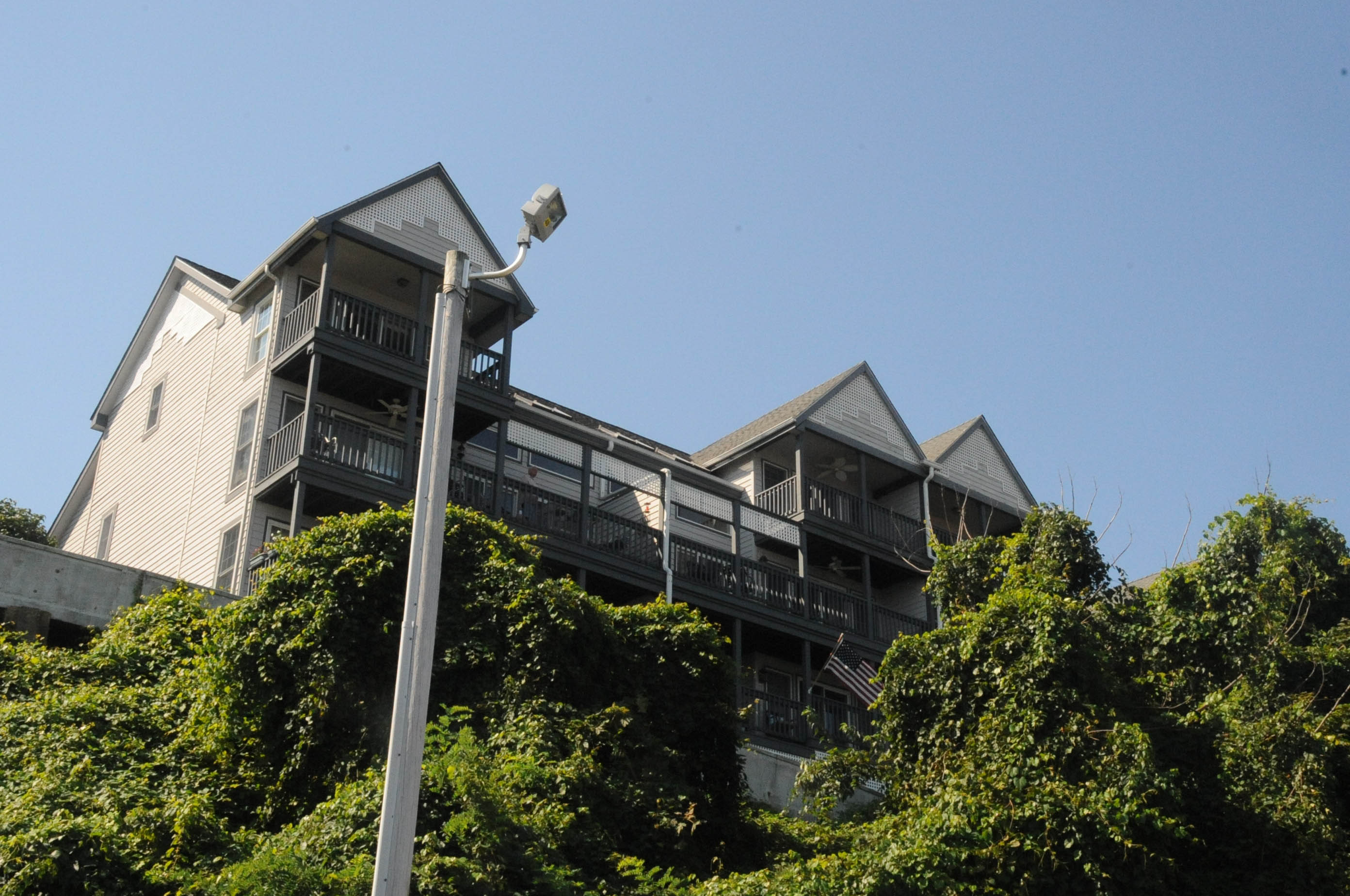 COLLECTION OF VERNACULAR VICTORIAN RESORT STRUCTURES. THE DISTRICT INCLUDES MANY OF THE HOMES, HOTELS AND COTTAGES BUILT TO ACCOMMODATE STEAMBOAT PASSENGERS IN THE LATE 19TH AND EARLY 20TH CENTURIES.. RIGBIE HOTEL BUILT CIRCA 1915 SITUATED ON A HIGH BLUFF OVERLOOKING THE CHESAPEAKE WAS THE MOST GLAMOUROUS OF BETTERTON’S GOLDEN AGE